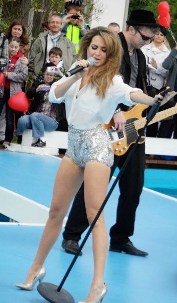 Mandy Capristo at ZDF-Fernsehgarten